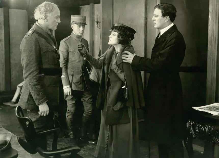 L. to R. : Winter Hall, unknown, Sylvia Breamer & Thomas Meighan in Missing - publicity still (cropped)